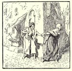 Illustration of Ali Baba and the Forty Thieves